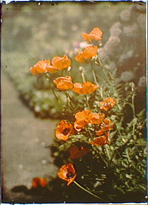 Arnold Genthe (1869-1942): California golden poppies